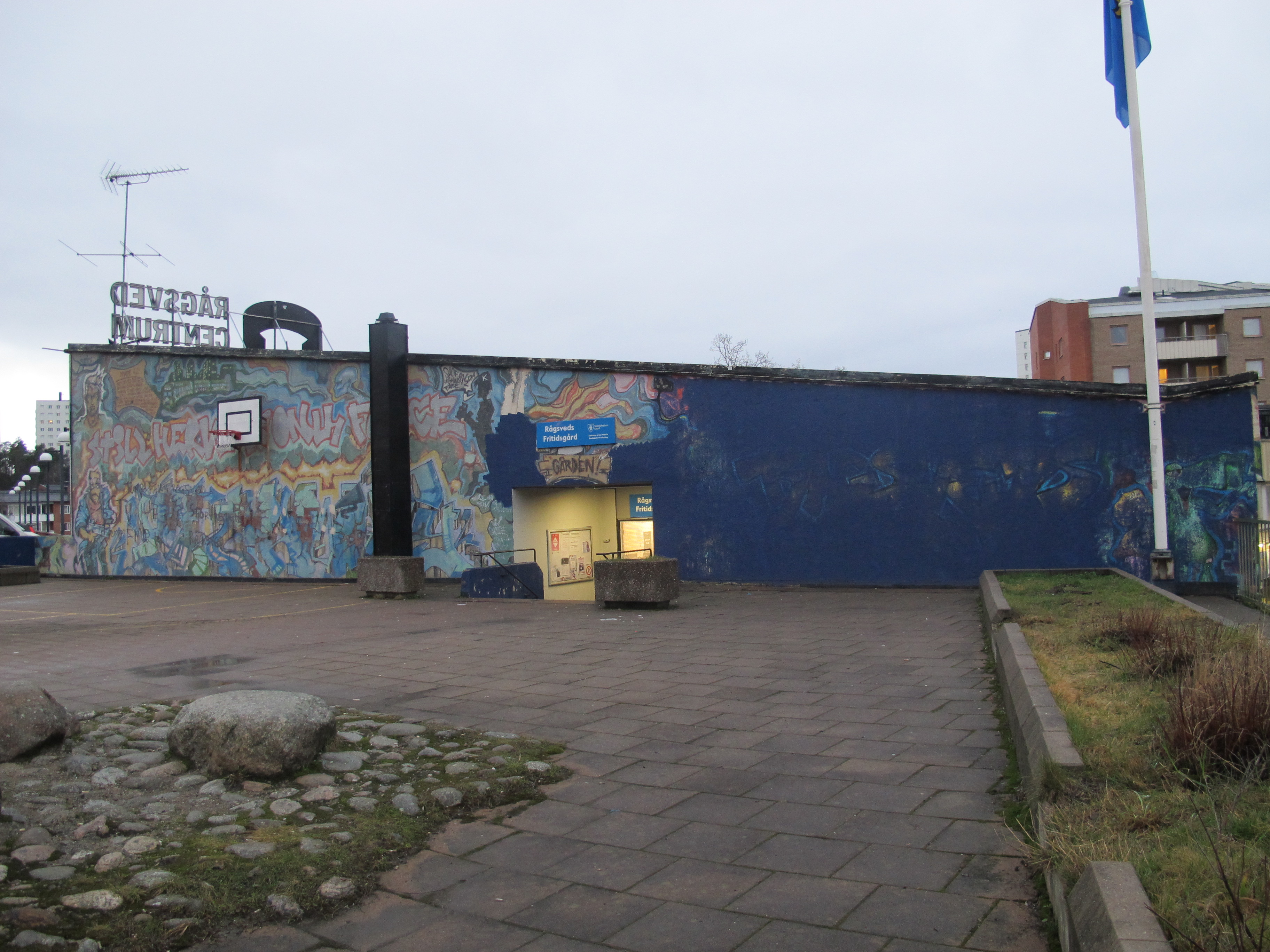 The graffiti wall Highway in Rågsved in Stockholm from 1989, now with part of it covered with blue paint by mistake.